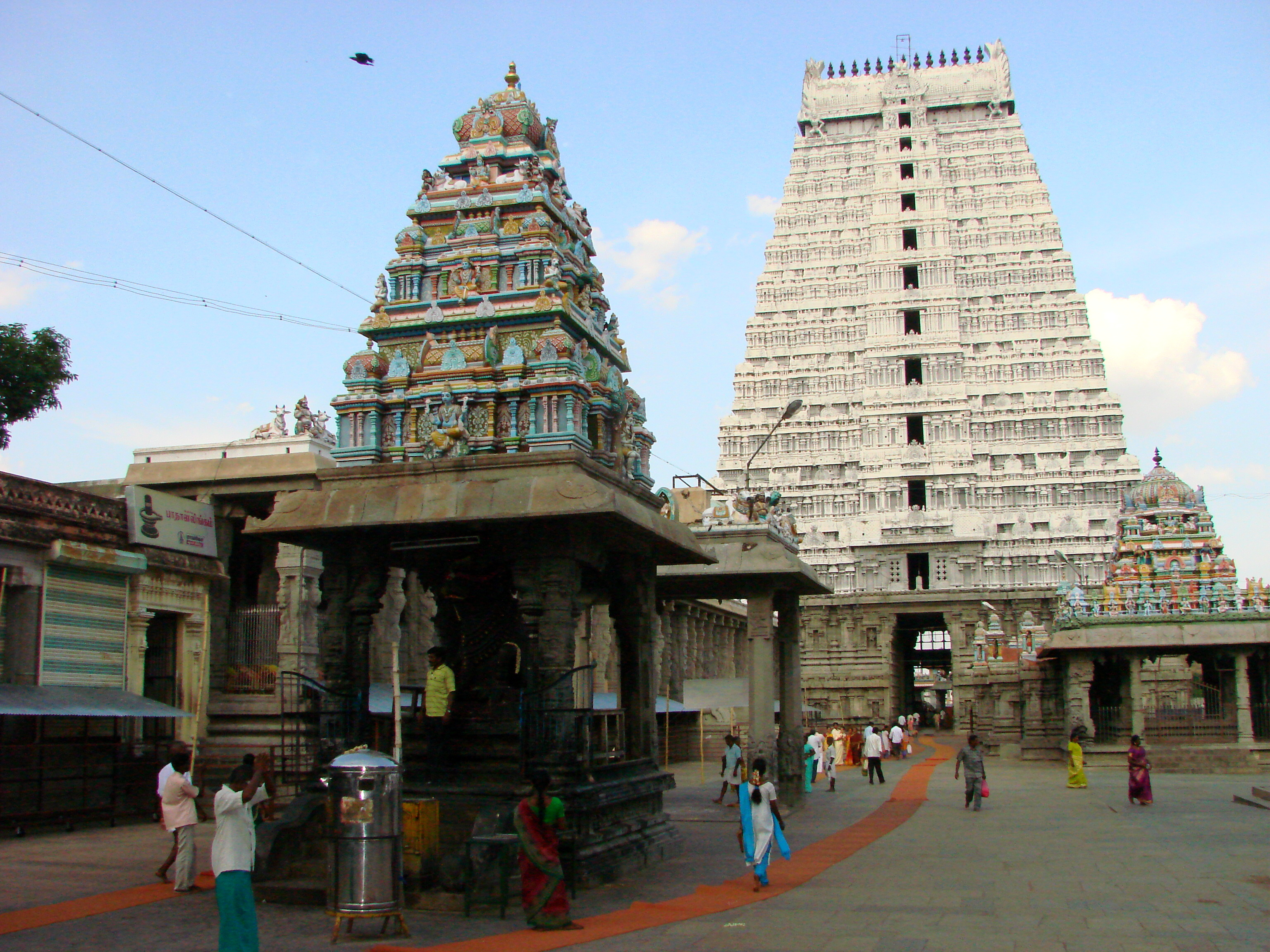 Arunchaleshvara Temple in Tiruvannamalai, India. July 2008.